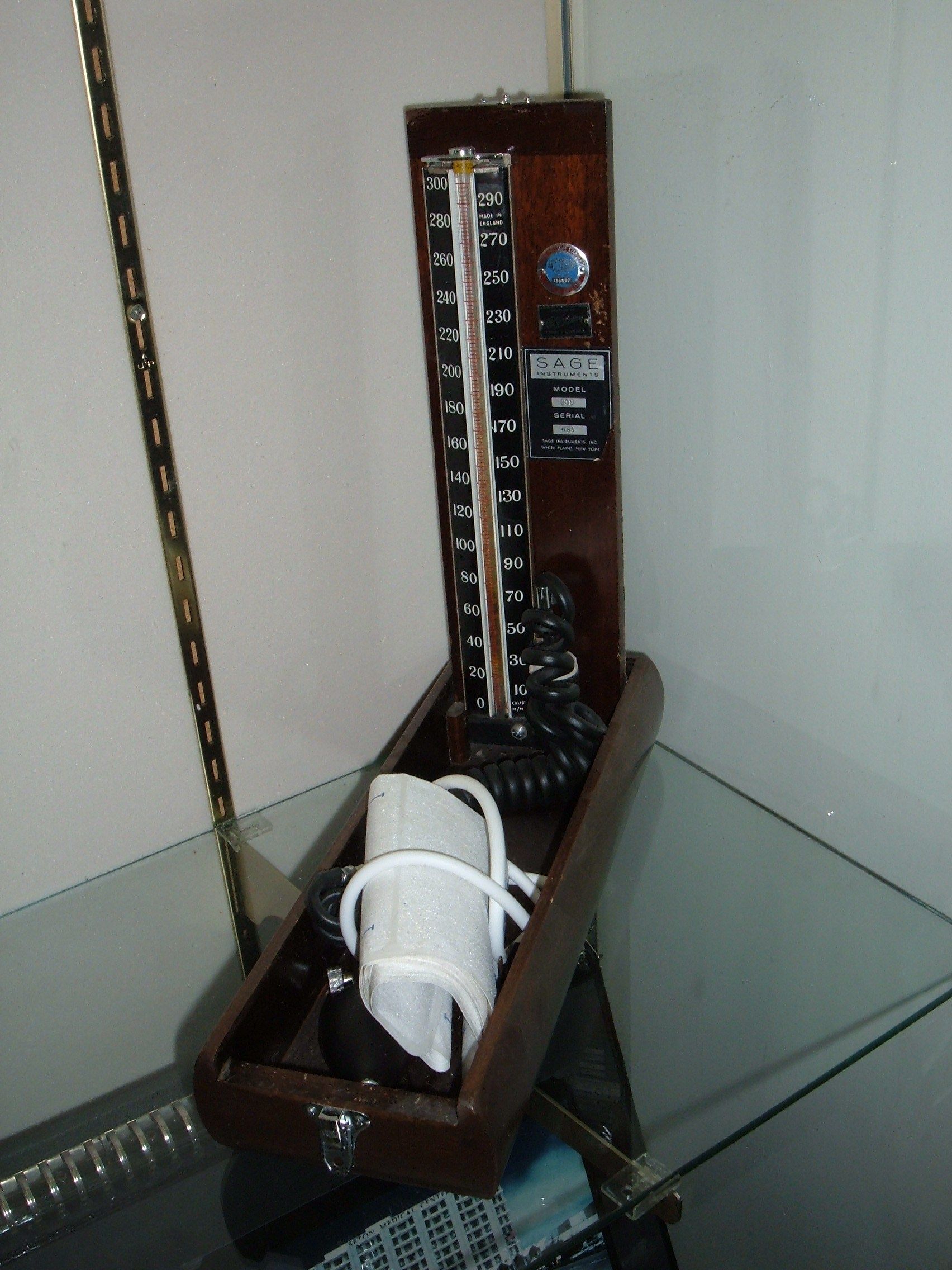 Sphygmomanometer manufactured by Sage Instruments, Model 209